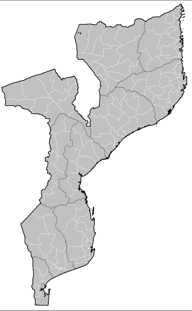 Map of the districts of Mozambique. Created by Rarelibra 20:01, 3 August 2007 (UTC) for public domain use, using MapInfo Professional v8.5 and various mapping resources.